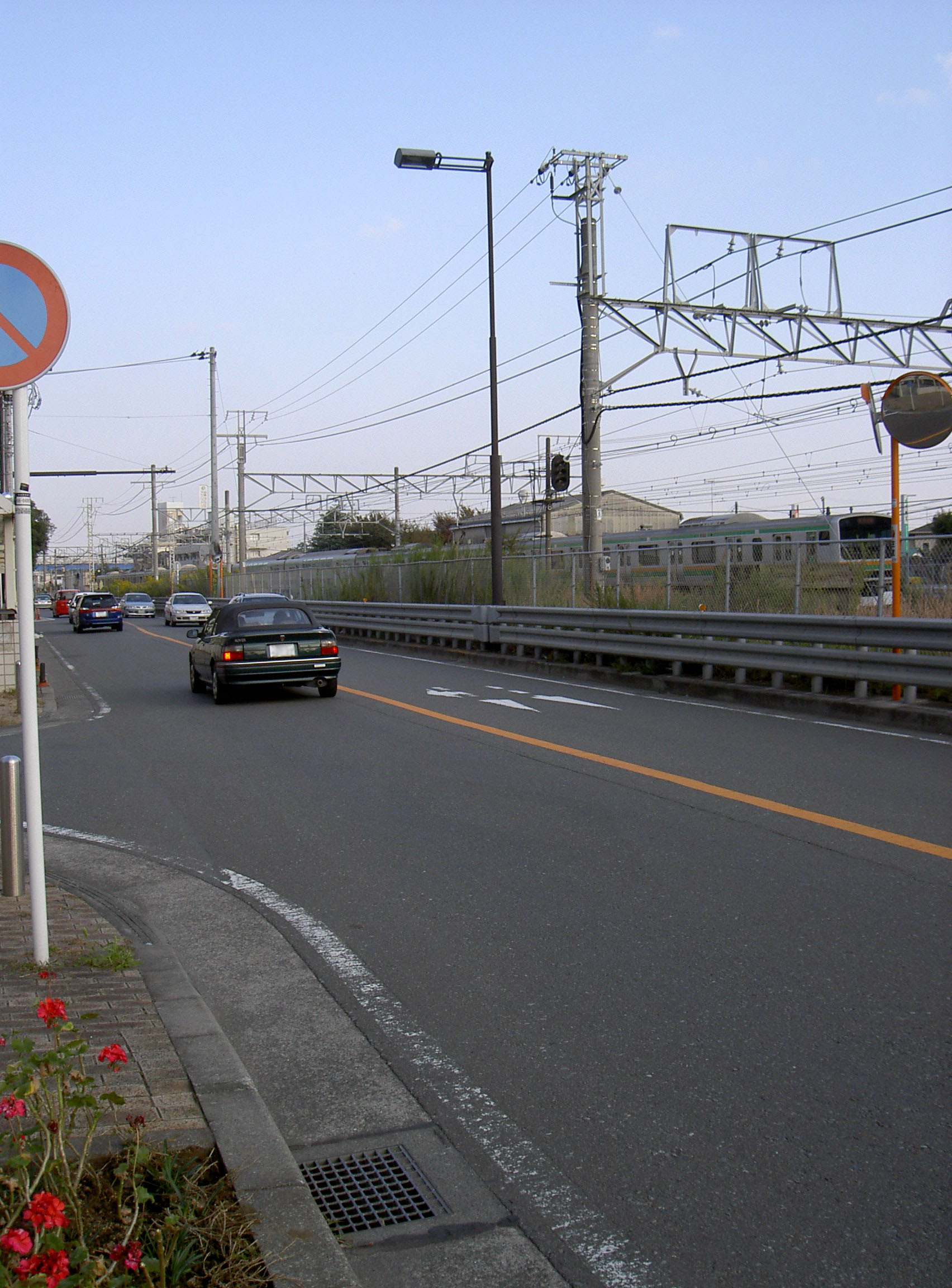 Kanagawa prefectural road route 307 ja: 神奈川県道307号辻堂停車場羽鳥線